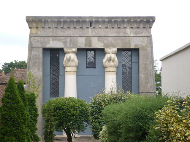 The Old Synagogue, King Street, Canterbury, seen from the southeast. Designed by Hezekiah Marshall and opened in 1848. Acquired by King's School in 1982 and is used for lessons and concerts.